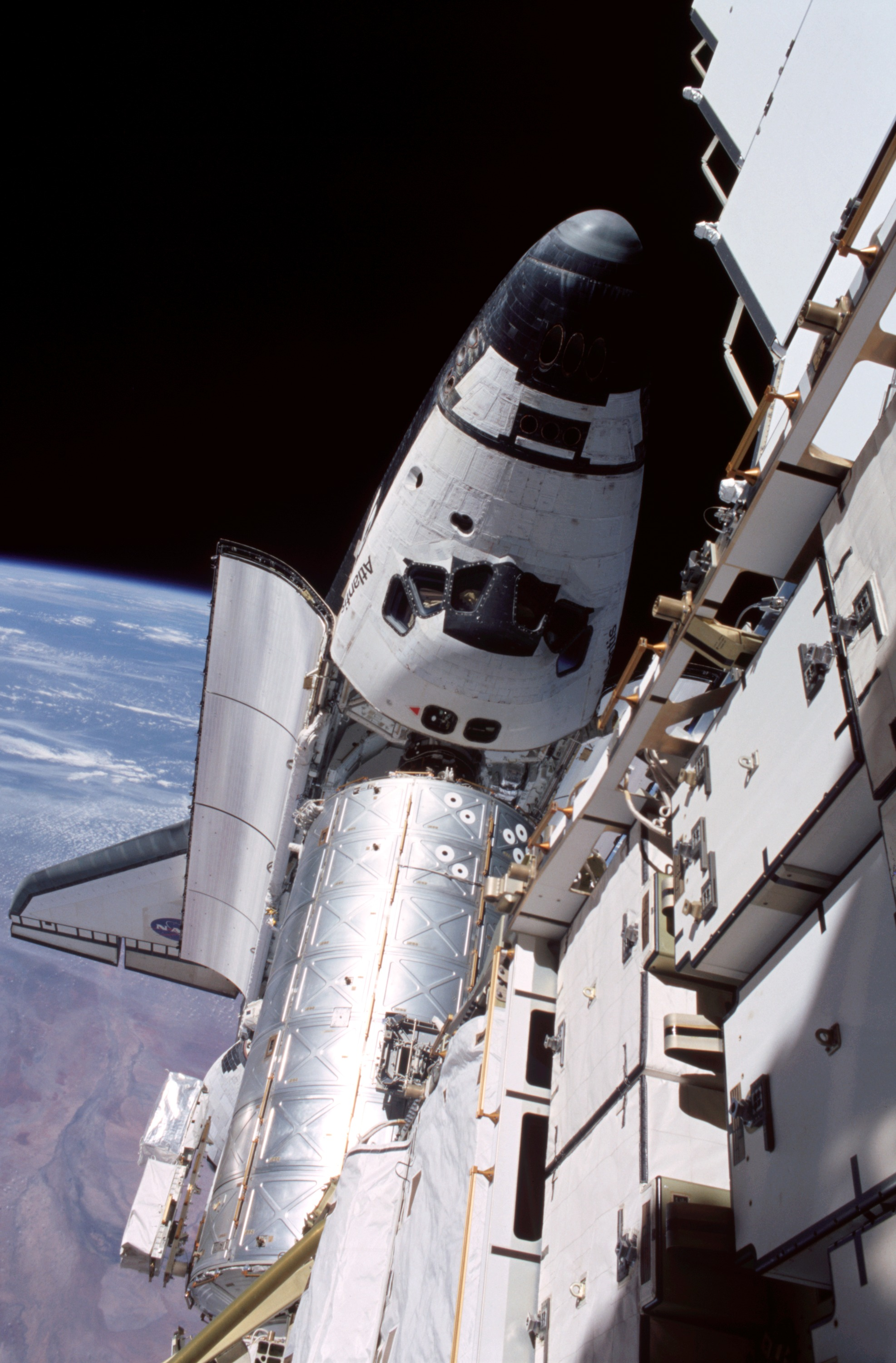 Backdropped by the blackness of space and Earth’s horizon, the Space Shuttle Atlantis was photographed while docked to the Destiny laboratory on the International Space Station (ISS) during the STS-104 mission.